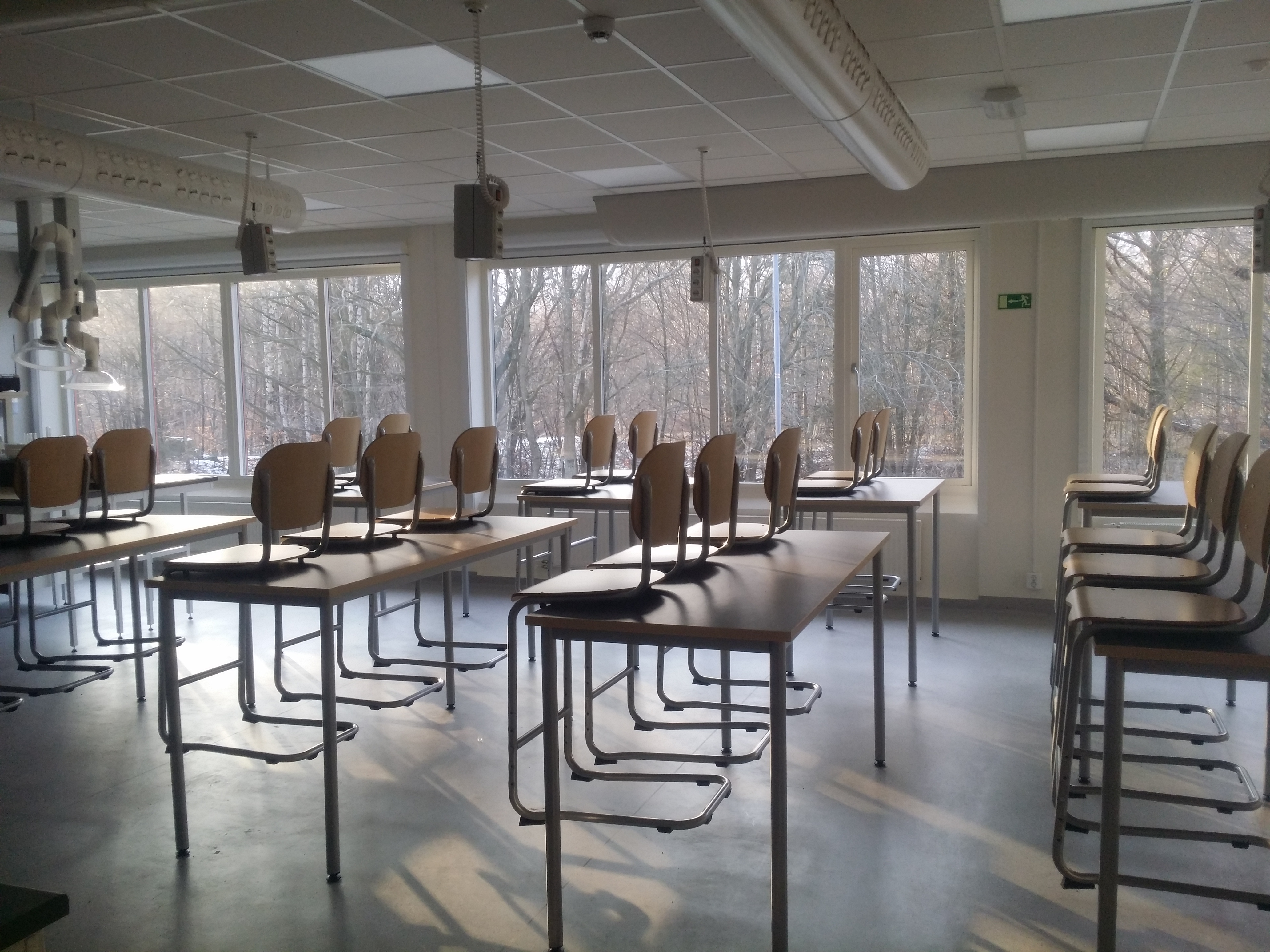 Class in colors by EricGus Swedish chemistry classroom built during the year of 2014. Located in the town of Sölvesborg in Blekinge county